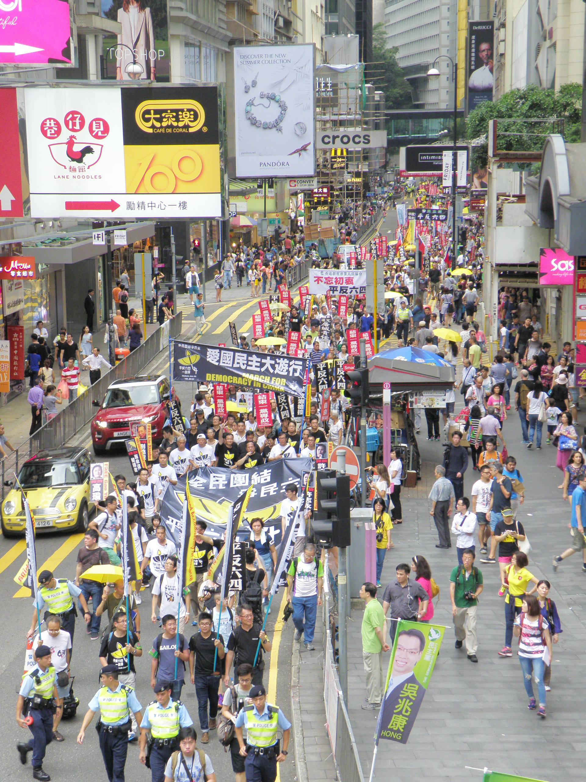 June 4 commemoration march in Hong Kong Island north coast, Hong Kong.